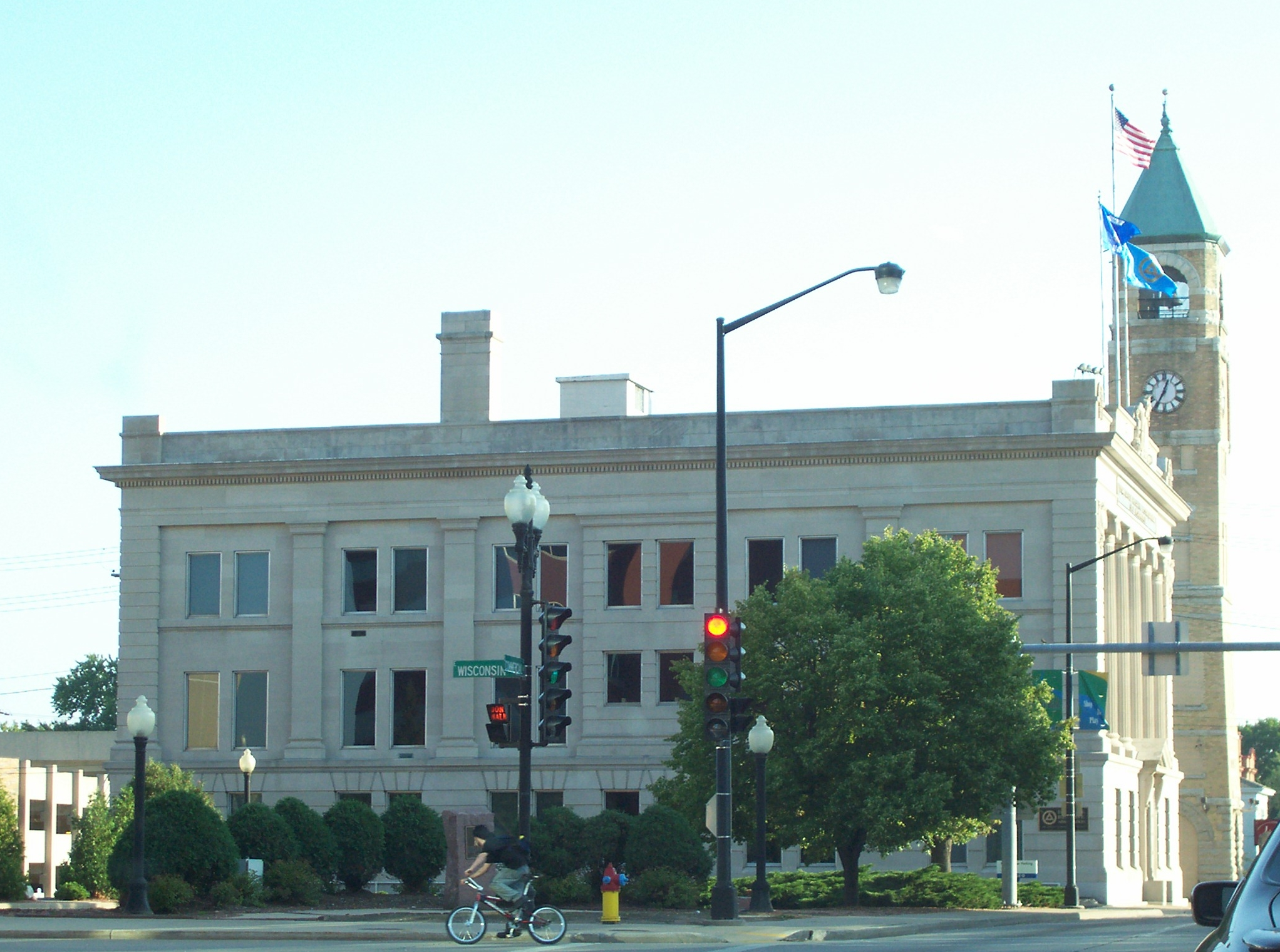 Looking south at the Equitable Fraternal Union building and the clock tower of Neenah's old city hall for Neenah, Wisconsin, USA while traveling on Wisconsin Highway 114. Most of the old city hall was demolished in the 1970s, but the clock tower preserved.